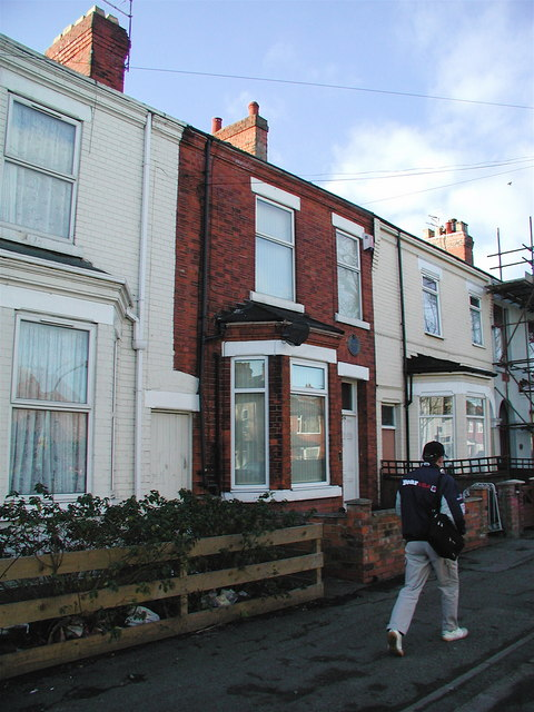 Amy Johnson's Birthplace, Hull, East Riding of Yorkshire, England. 154 St. George's Road, Hull, showing a blue heritage plaque dedicated to Johnson. Amy Johnson was born here on 1st July 1903, the daughter of John William Johnson, a member of the old established family firm of Andrew Johnson, Knudtzon and Company, fish merchants, and Amy Hodge, granddaughter of William Hodge, Mayor of Hull in 1860. Amy grew up to become a pioneer aviatrix famous in her own lifetime. After many headline-making flights she drowned at the age of 37, crashing her plane in the Thames Estuary during World War II on 5th January 1941 while flying for the Air Transport Auxiliary of the British Armed Forces. The family lived in this terraced house on St. George's Road until Amy was about six years old.